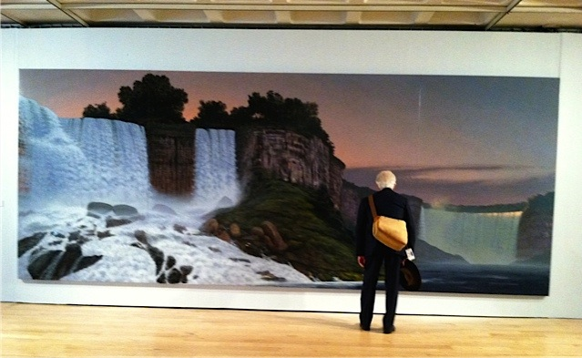 "Moving Water for Frank Moore; Niagara Falls" (Mass MoCA #170) 2004-2012, Polished Mixed Media on Canvas, 96 x 240 inches. Photo by Jo Ellen Harrison.